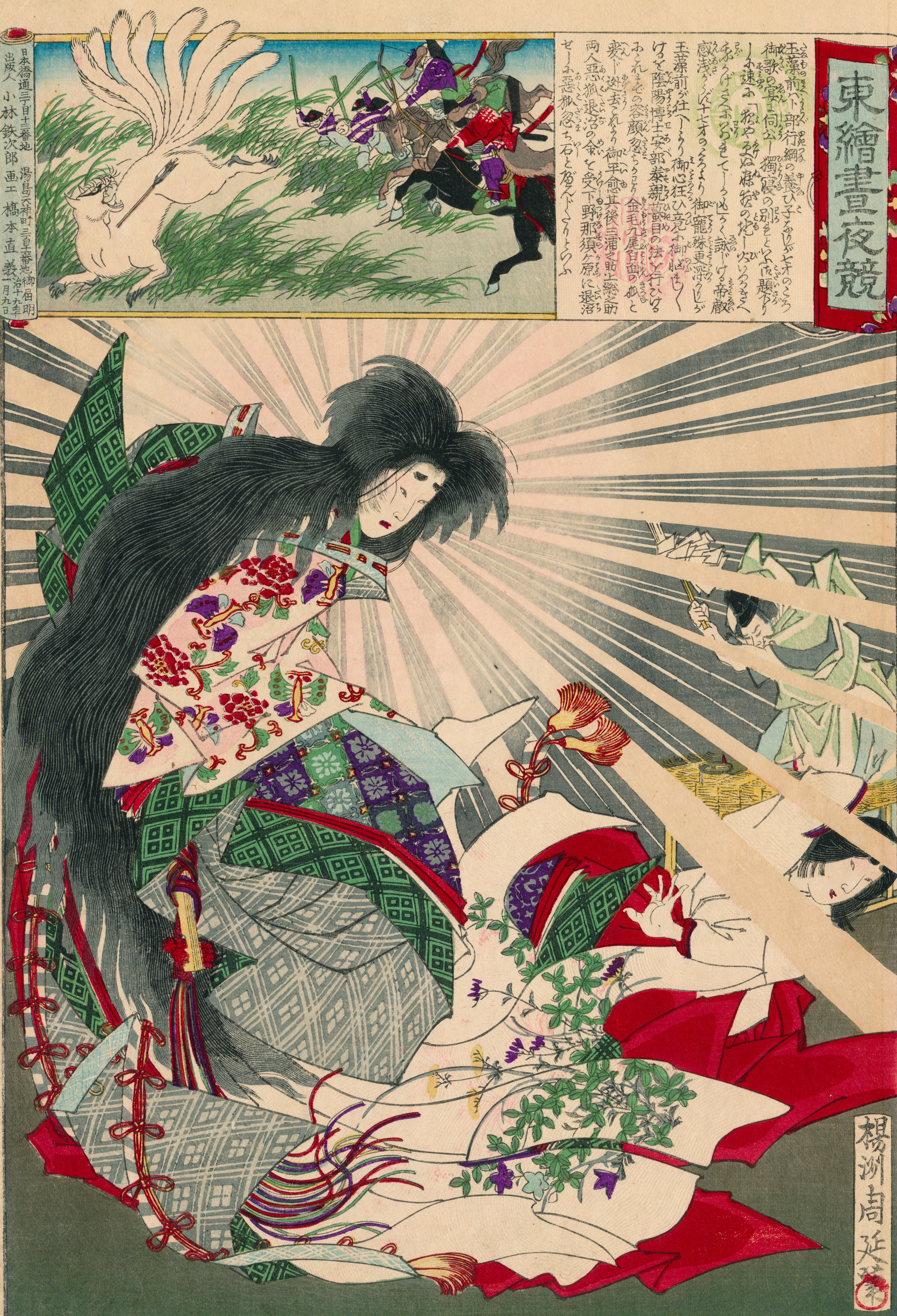 Woodblock print by Chikanobu, showing nine tailed fox Tamamo-no-Mae, under her beautiful human form (down), and as a fox stalked by the men sent after her by the emperor (above). Signed Yōshū Chikanobu, series ’Eastern Brocades: Day and Night Compared’, print no. 4.